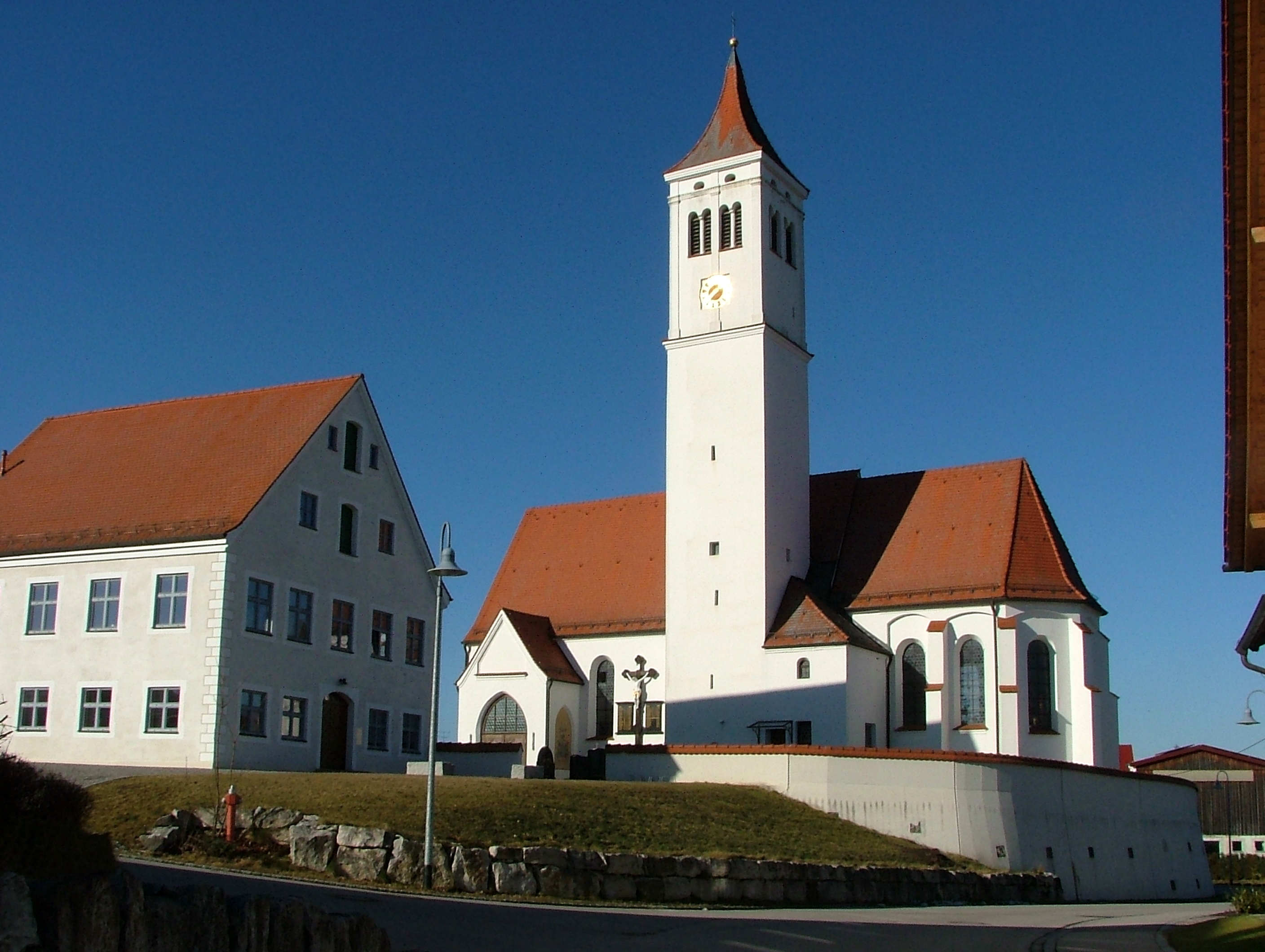 Dietershofen